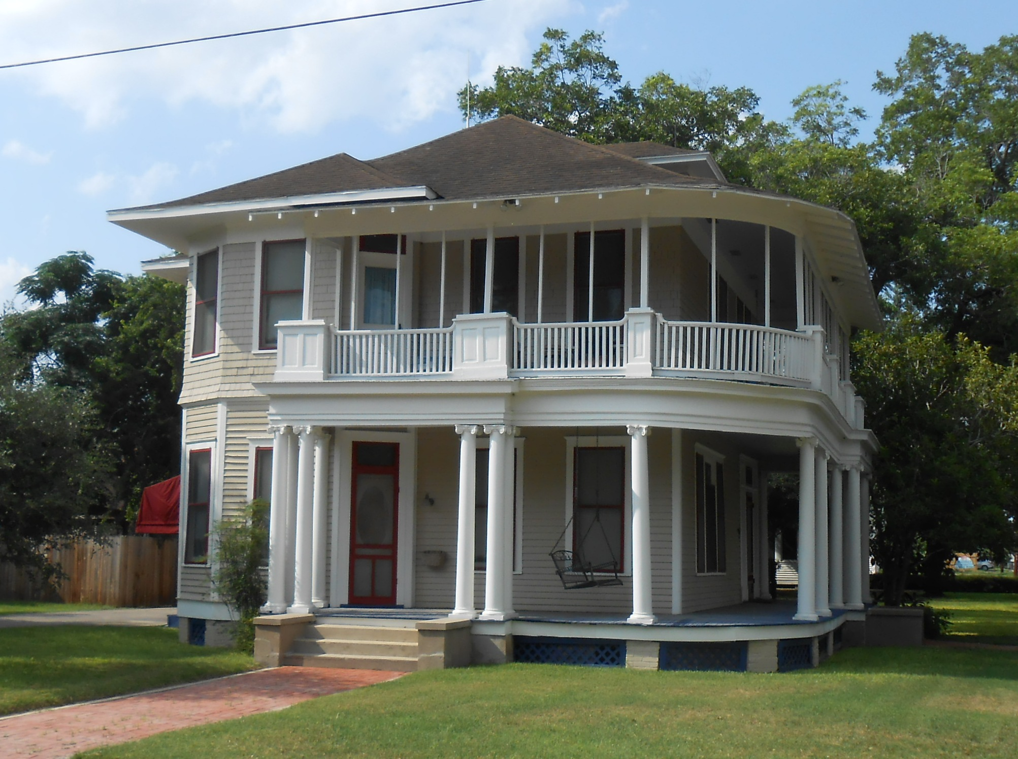 E.J. Jecker House, 201 N. Wheeler Street, Victoria, Texas